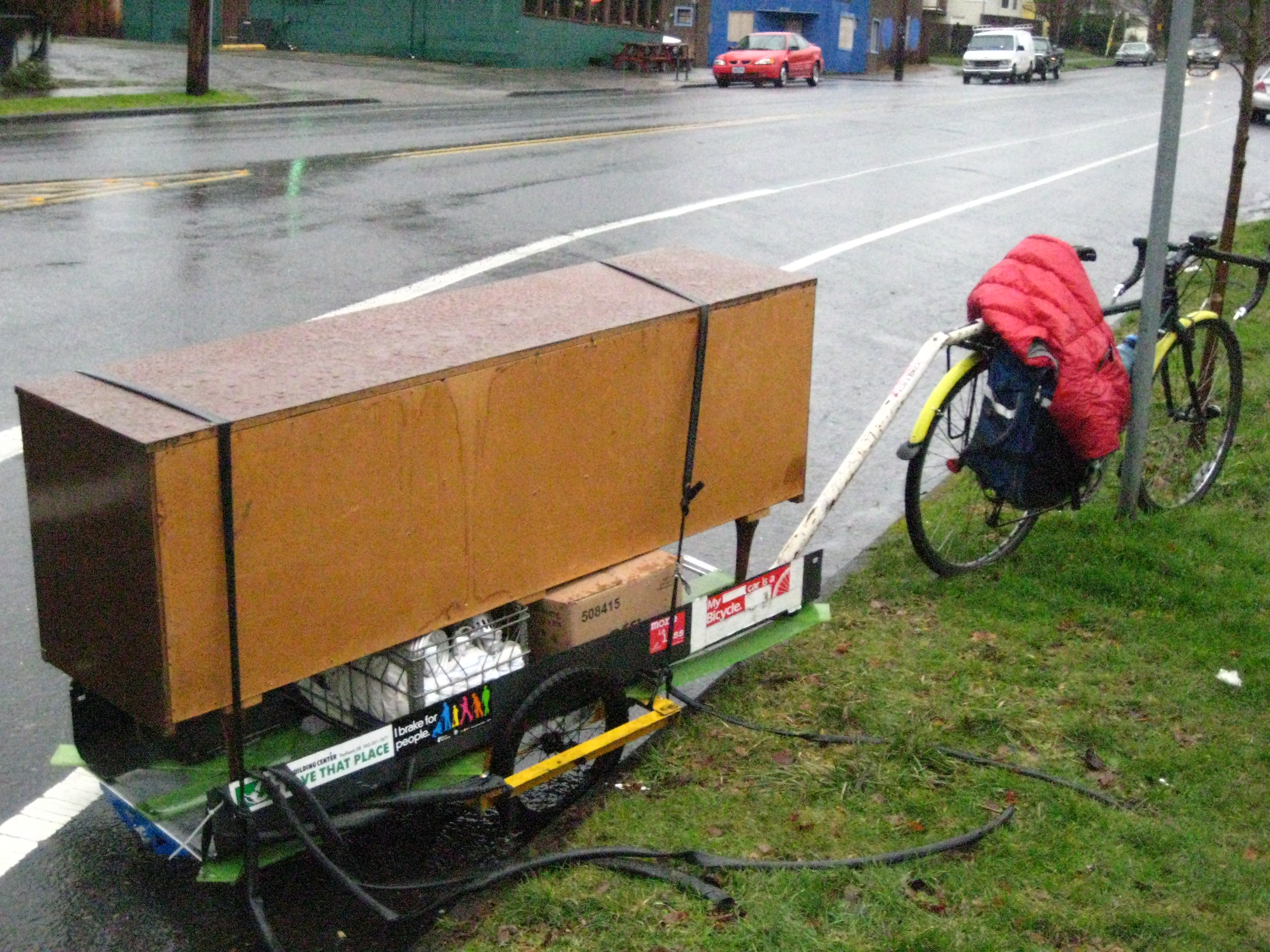 Heavy-duty bike trailer at "Move by Bike" in Portland, Oregon.